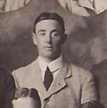 Mel Baker with the British Isles, later the British and Irish Lions, rugby union team on their tour of South Africa in 1910